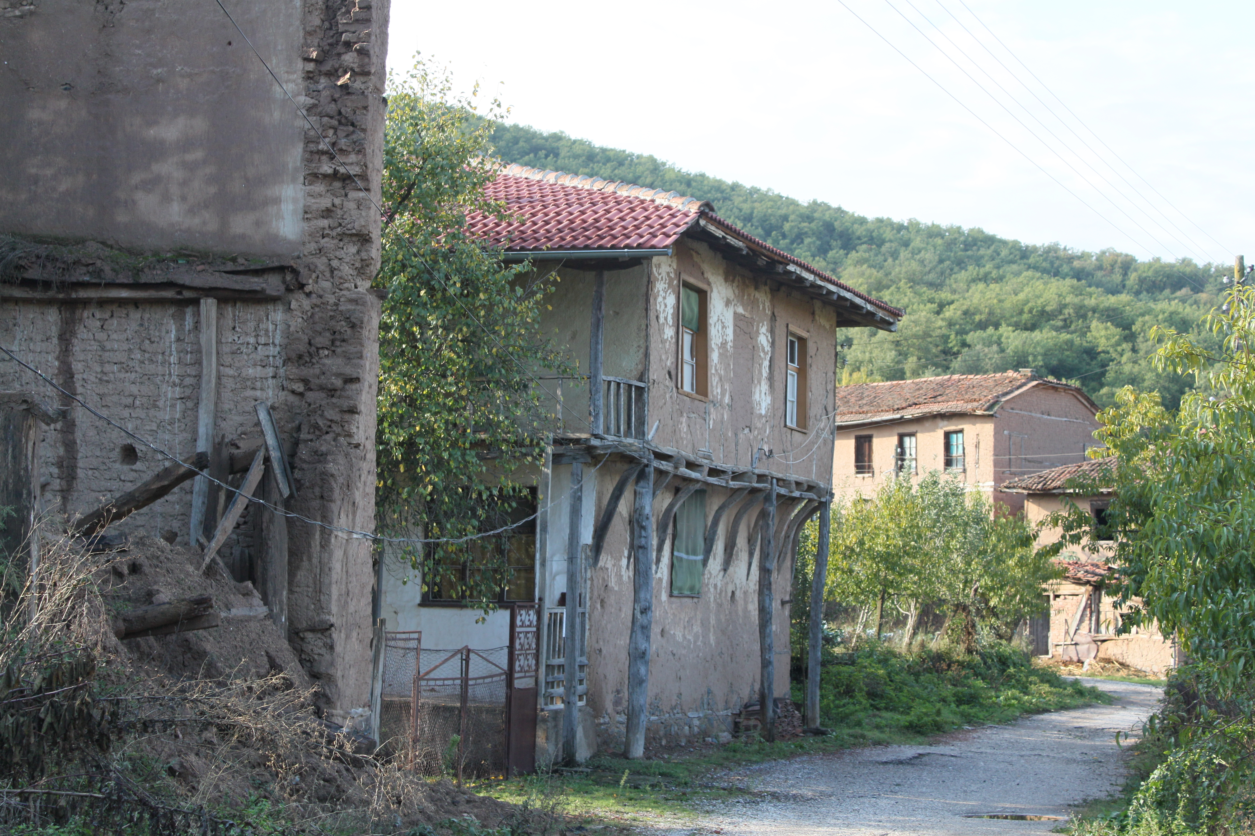 Mandritsa, a village in the Rhodope Mountains, Bulgaria